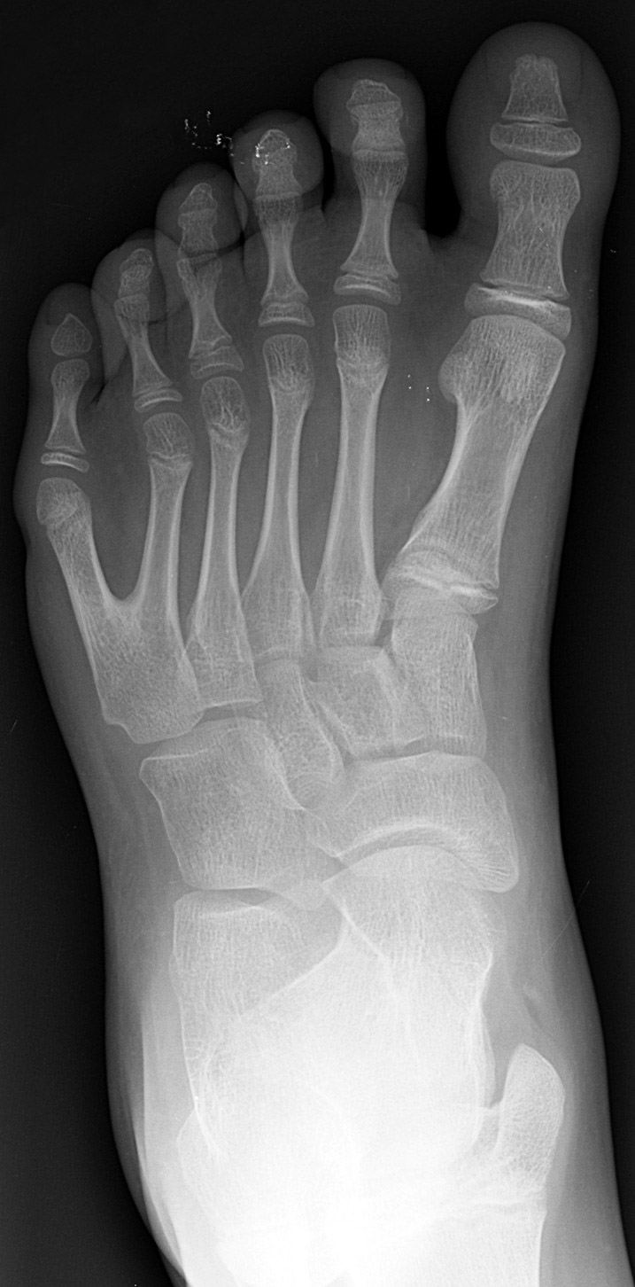 Conversion of a DICOM-format X-ray from a patient of User:Drgnu23, a ten year old male. This is the patient's left foot, anterior-posterior view. Identifying tags and such have been stripped. The image is his, released under the GFDL. The image was subsequently altered by user:Grendelkhan, user: Raul654, and user:Solipsist.